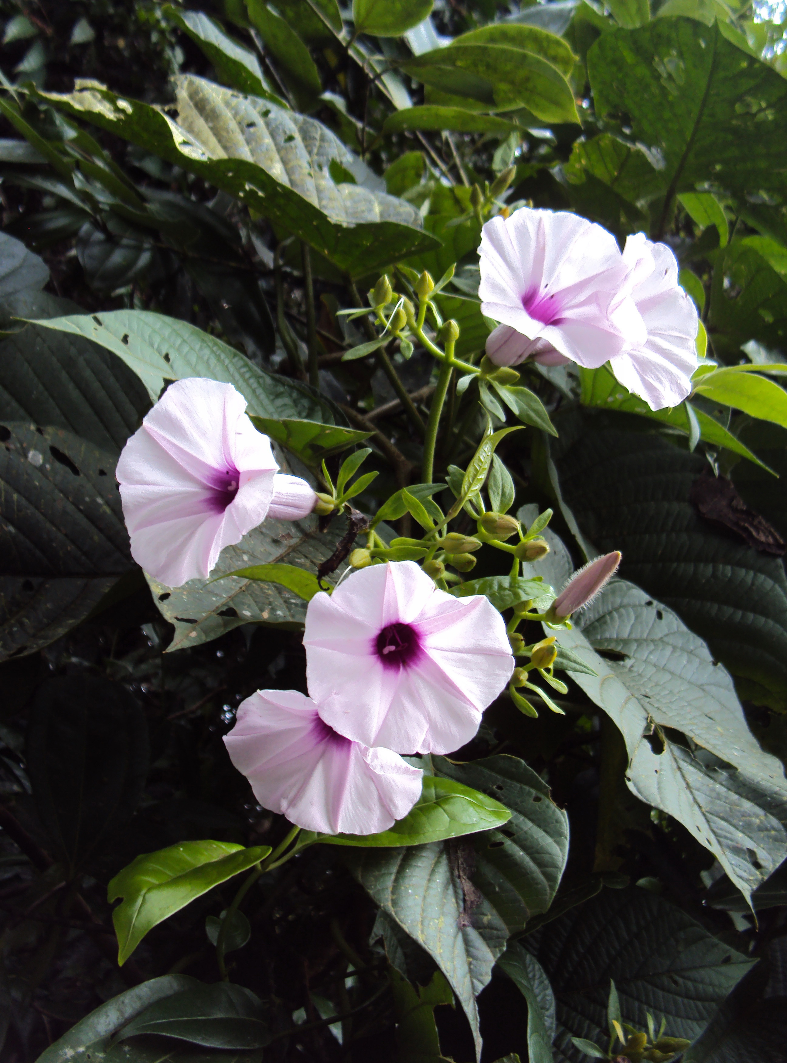 Argyreia hirsuta